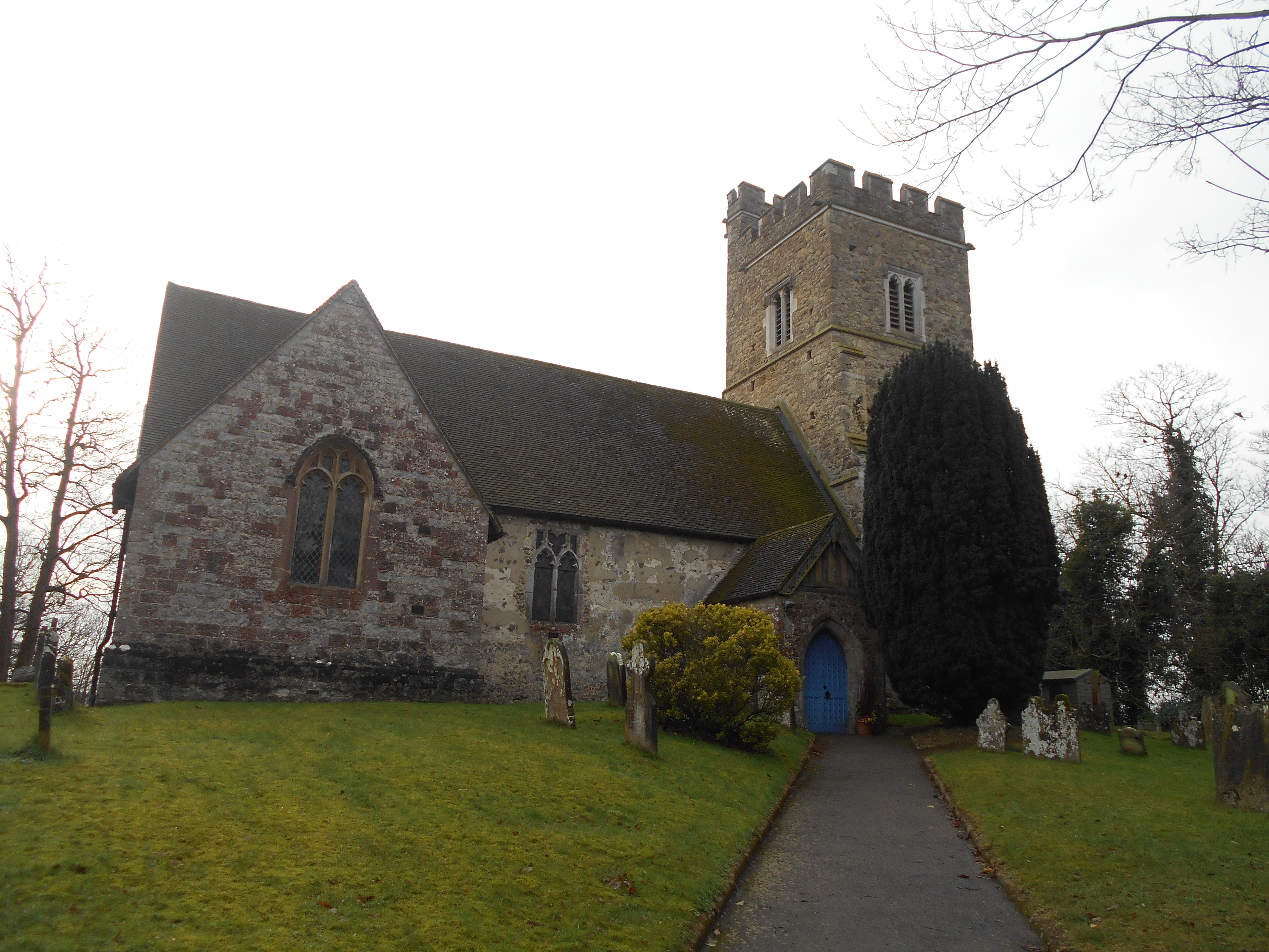 St. Margaret's Church, Addington, Kent, England.